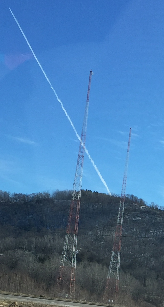 La Crosse radio towers